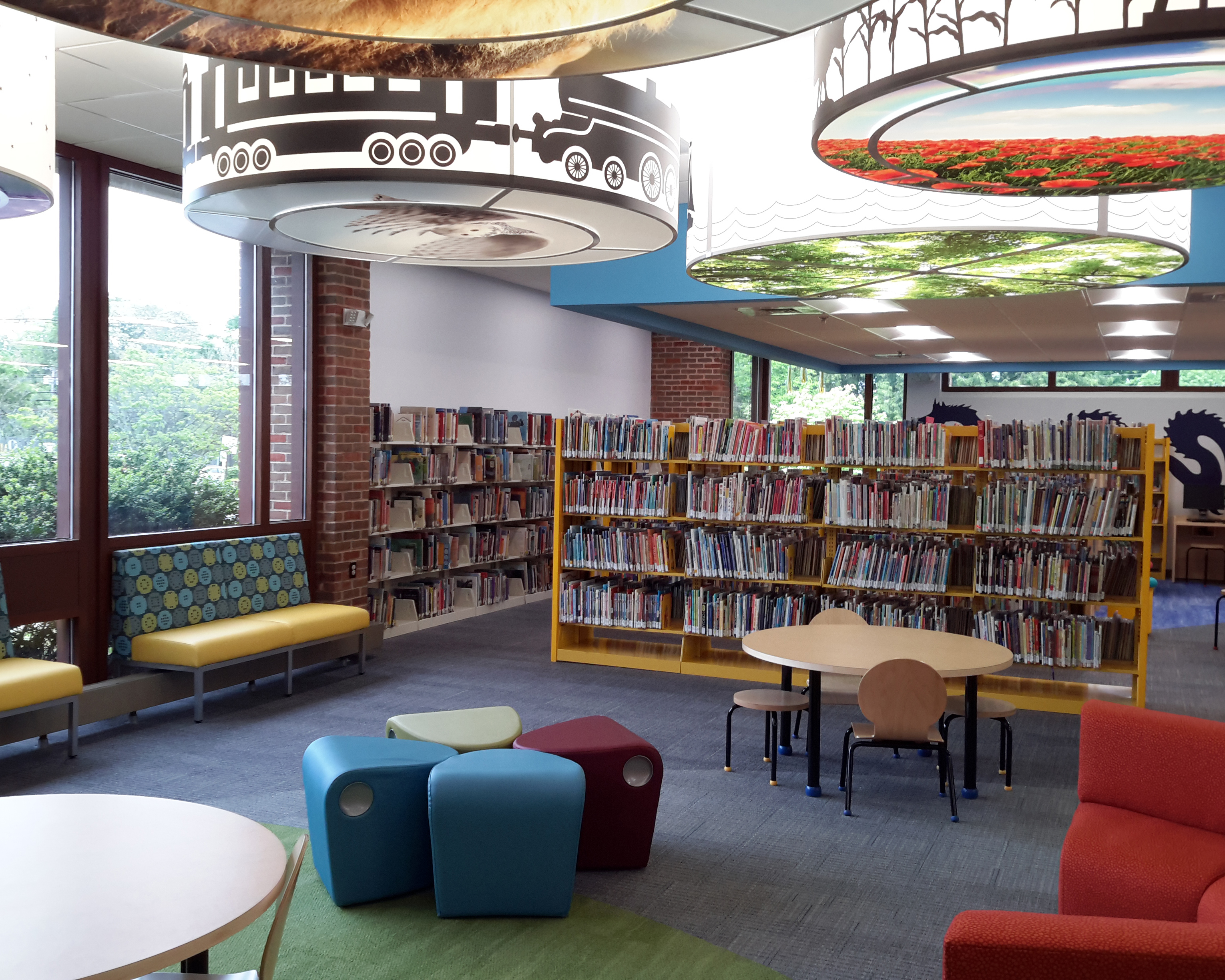 In 2017, a long-awaited renovation took place at the Central Library. For the first time since 1983, the children's room saw a complete remodel.